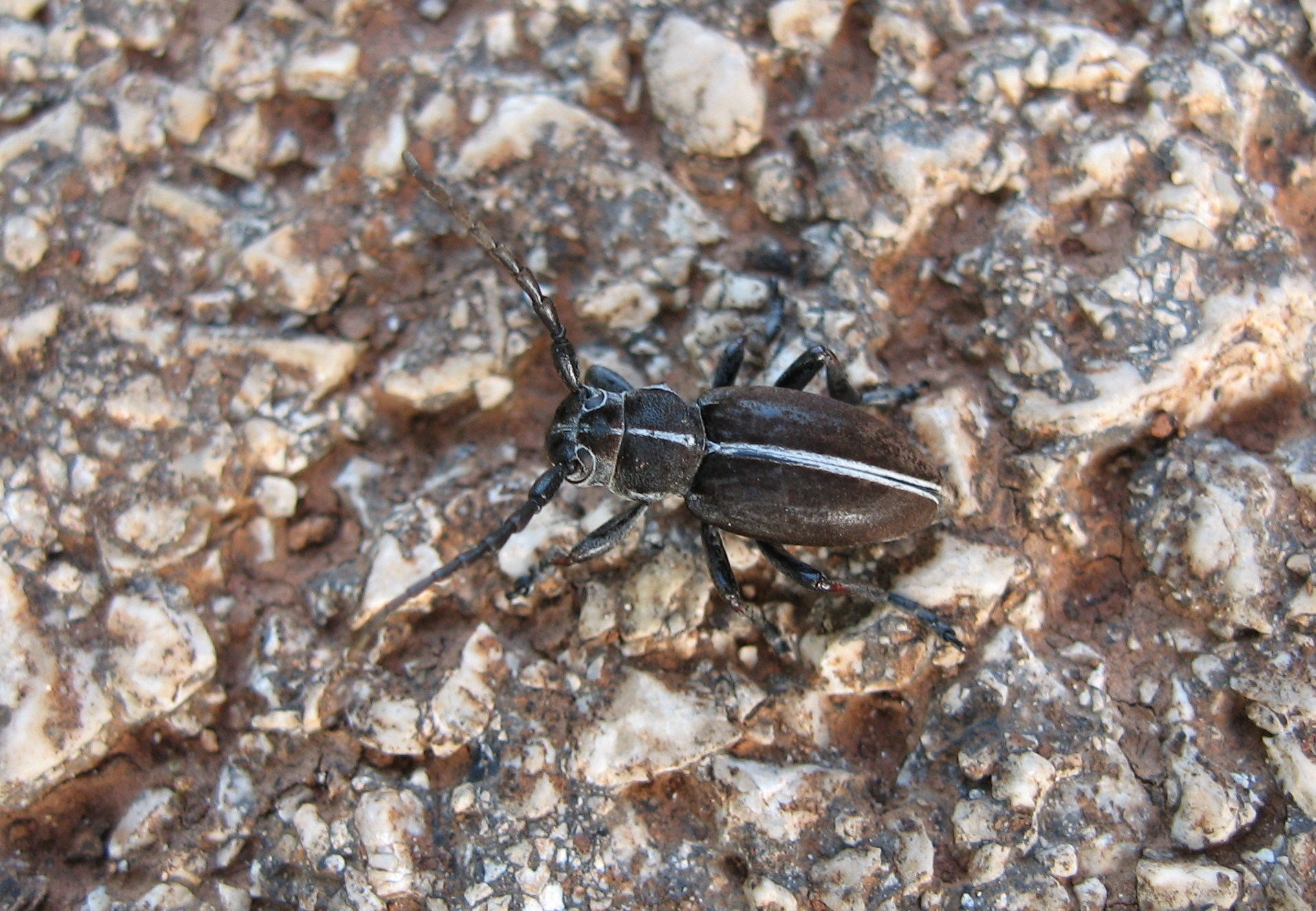 The beetle Dorcadion arenarium (= Cribridorcadion arenarium, Pedestredorcadion arenarium) from Istria/Croatia.